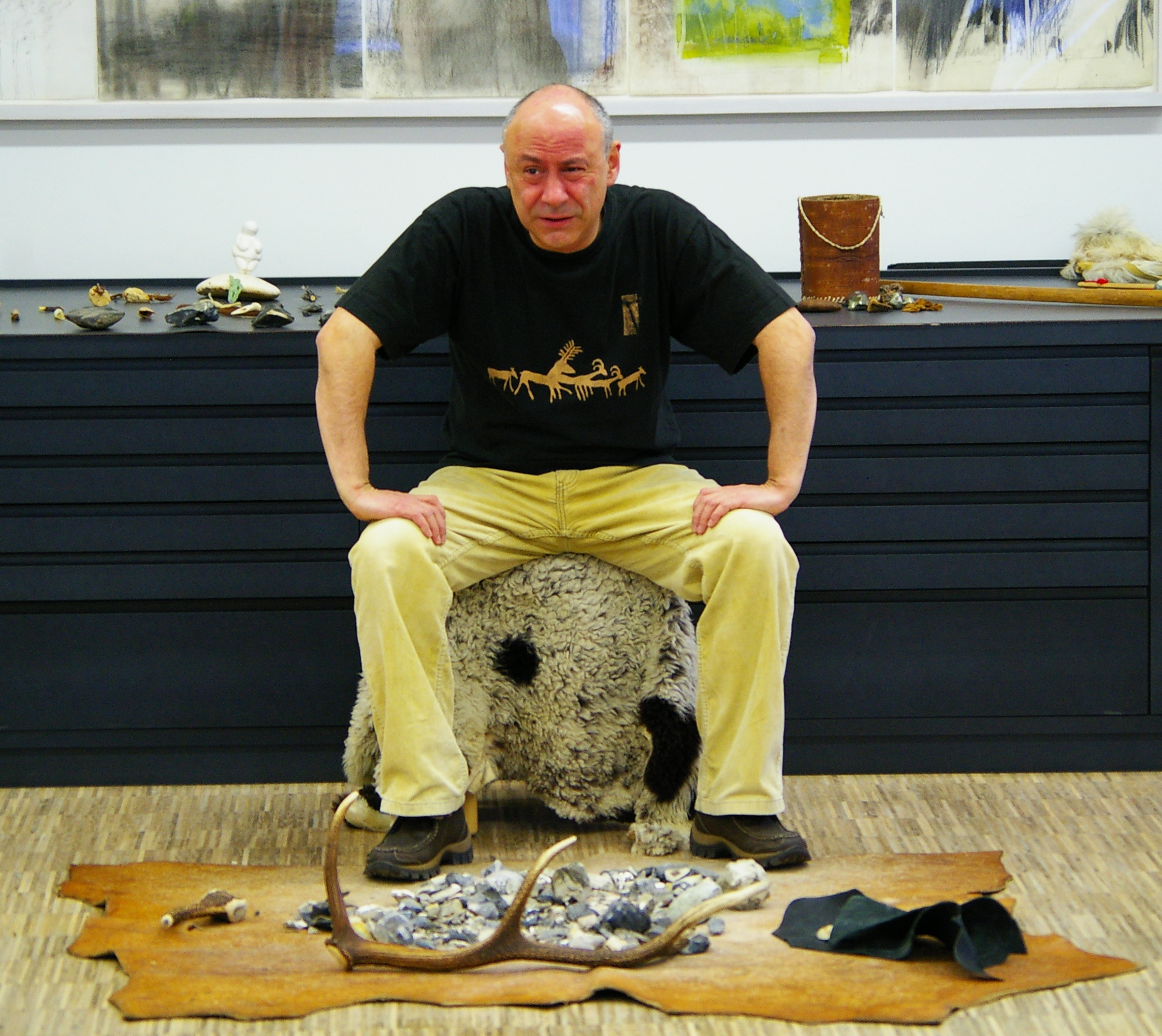 Workshop in the Museum for the Youth